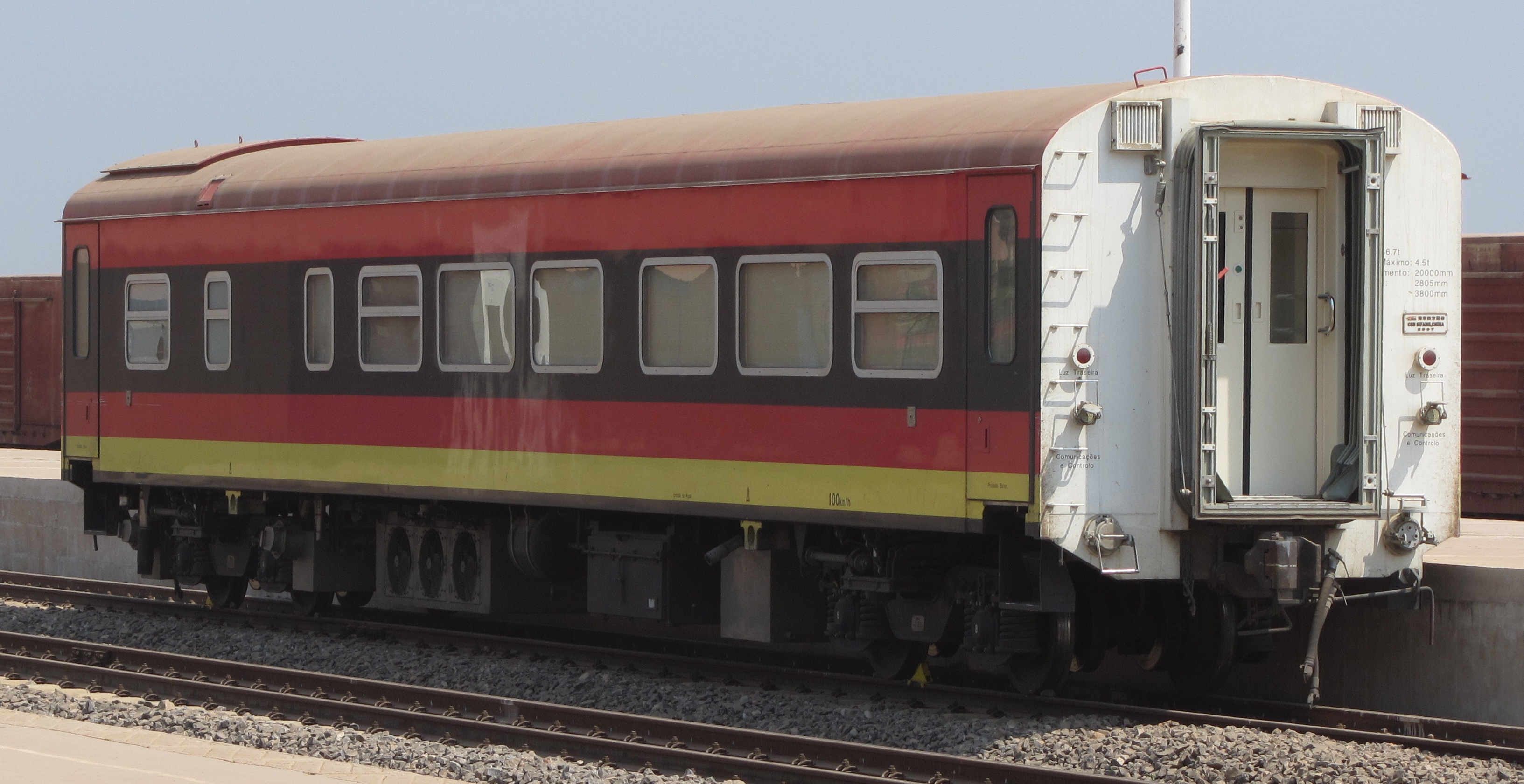 New long distances passenger car of CFL (Caminho de Ferro de Luanda E.P.), at Malanje in 2011. The car was built by CSR in China